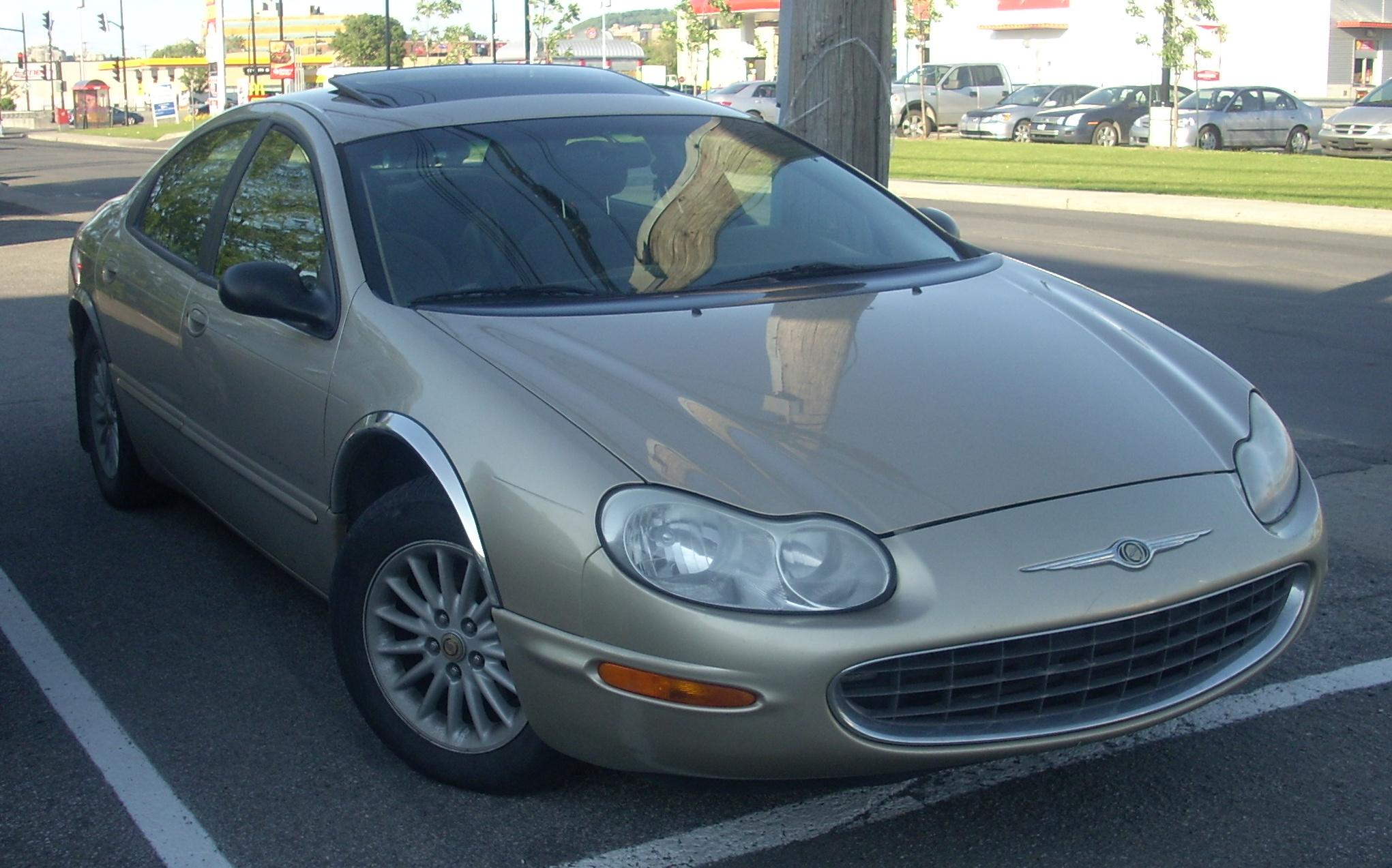 1998-2001 Chrysler Concorde photographed in Montreal, Quebec, Canada at Gibeau Orange Julep.